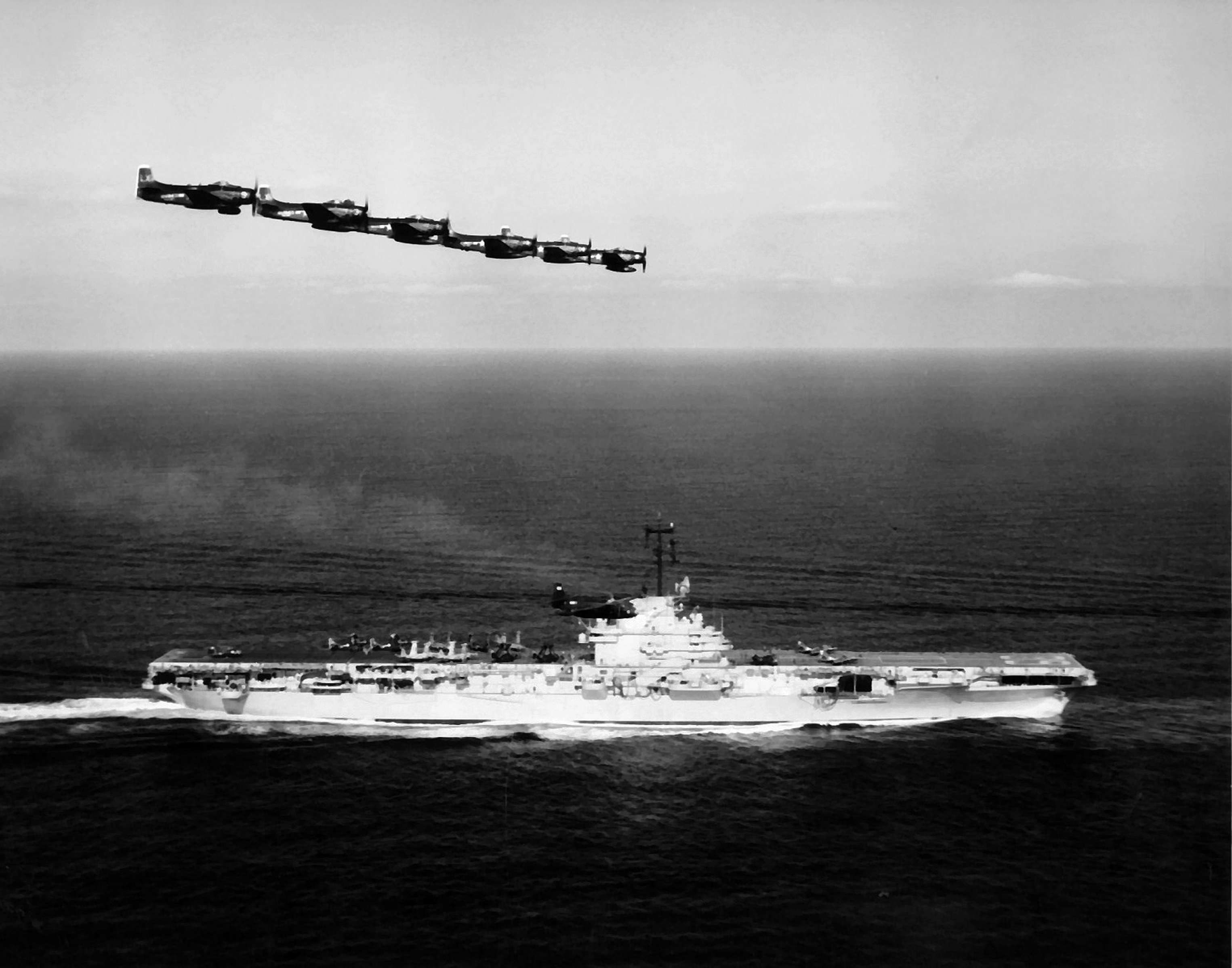 Six U.S. Marine Corps Douglas AD-6 Skyraider aircraft of Marine attack squadron VMA-324 Vagabonds and a single North American AJ Savage fly over the U.S. Navy aircraft carrier USS Lake Champlain (CVS-39) in September/October 1957. The Champ was participating in the NATO operation "Deep Water". This exercise involved protecting NATO’s southern European flank, specifically the Dardanelles, from a simulated Soviet invasion. Operation "Deep Water" culminated in the landing of 8,000 U.S. Marines at Saros Gulf near Gallipoli, Turkey, from a 38-ship amphibious task force, with air support provided by aircraft carriers from the U.S. Sixth Fleet.